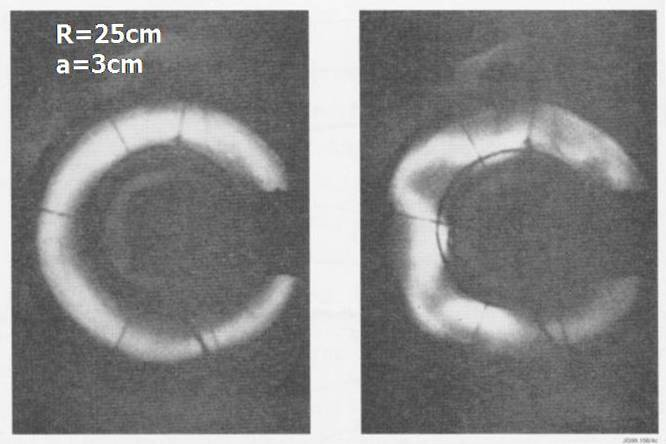 The "kink instability" in one of the earliest z-pinch devices, a pyrex tube used by the AEI team at Aldermaston, or earlier while still at Imperial College